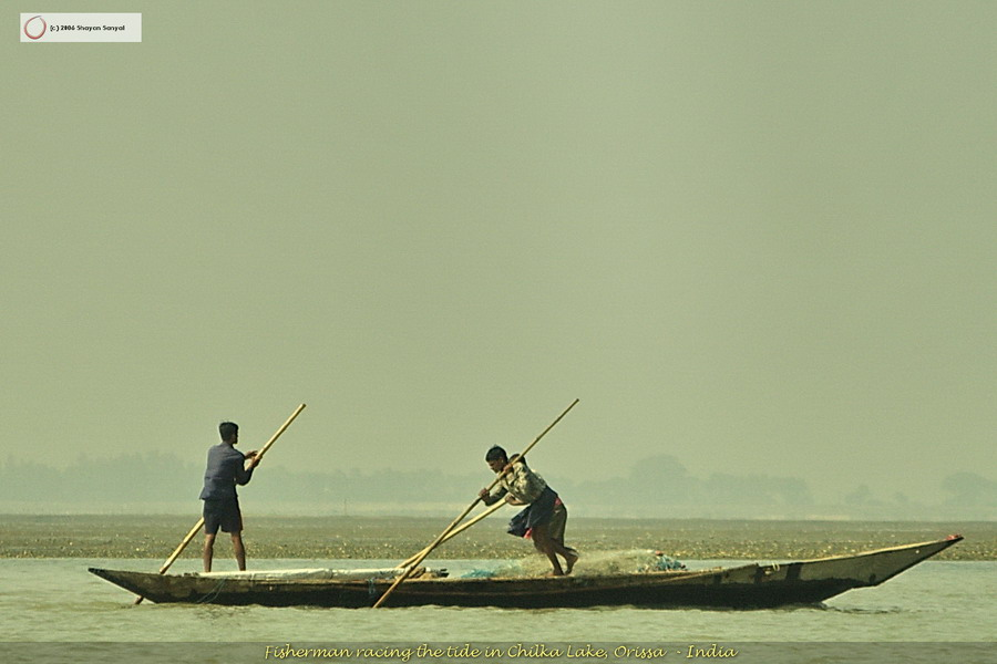 Fisherman racing the tide in Chilka Lake, Orissa - India